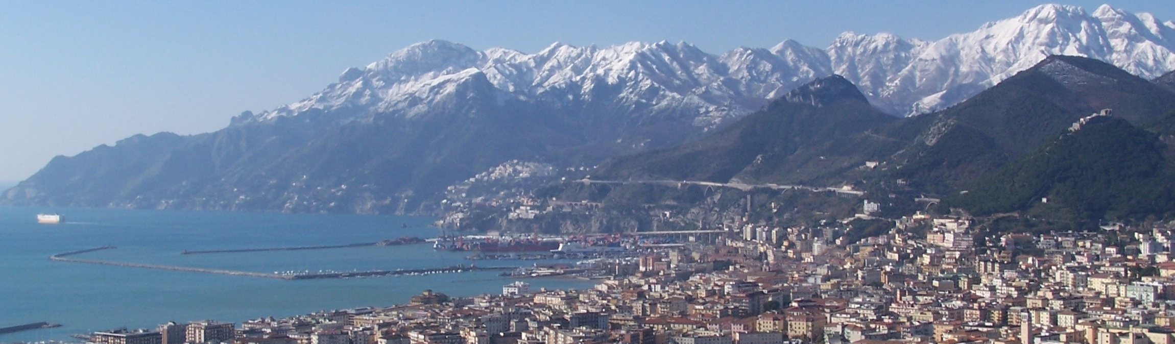 A new version of